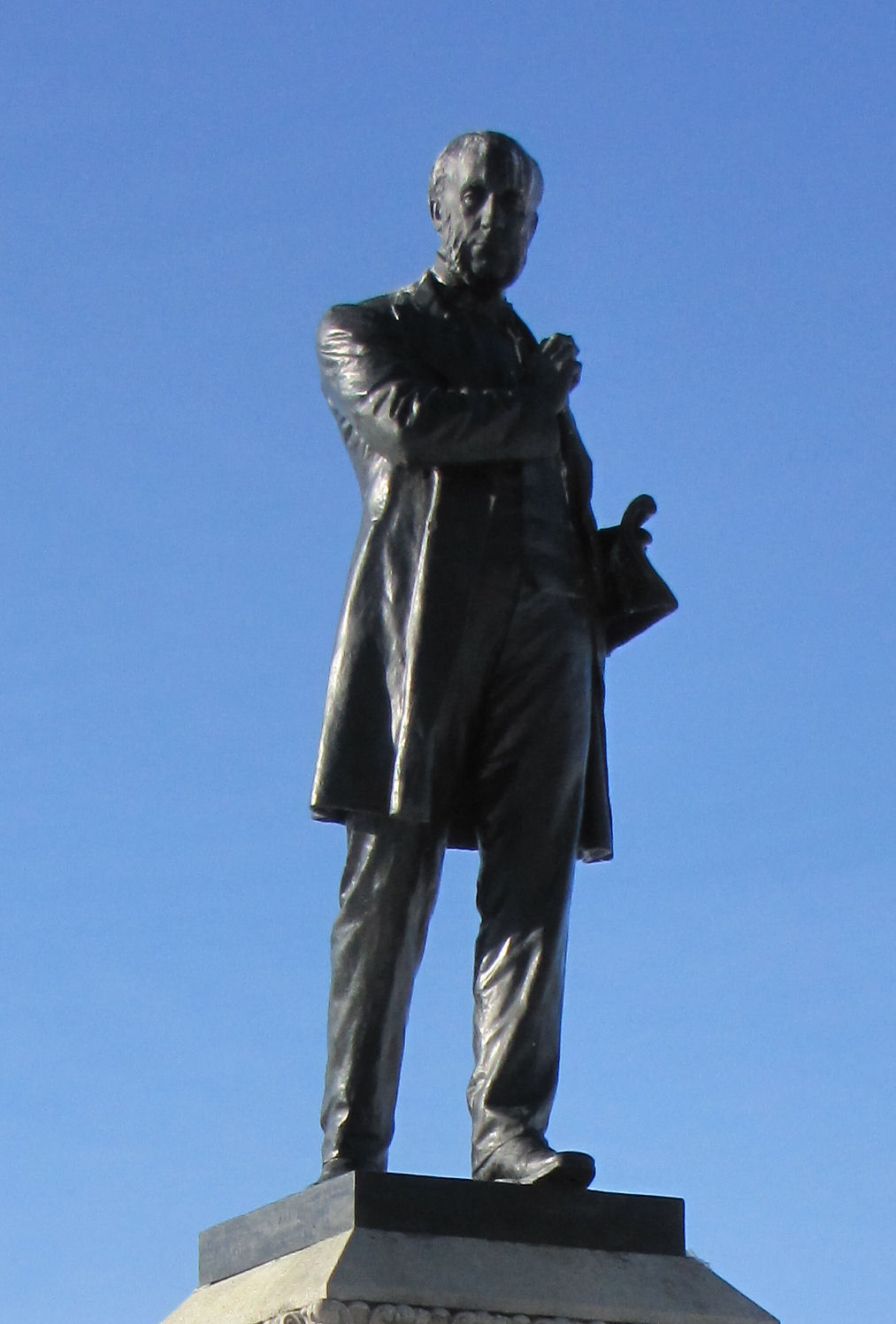 George Brown (1818-1880) statute, Parliament Hill, Ottawa, Ontario, Canada